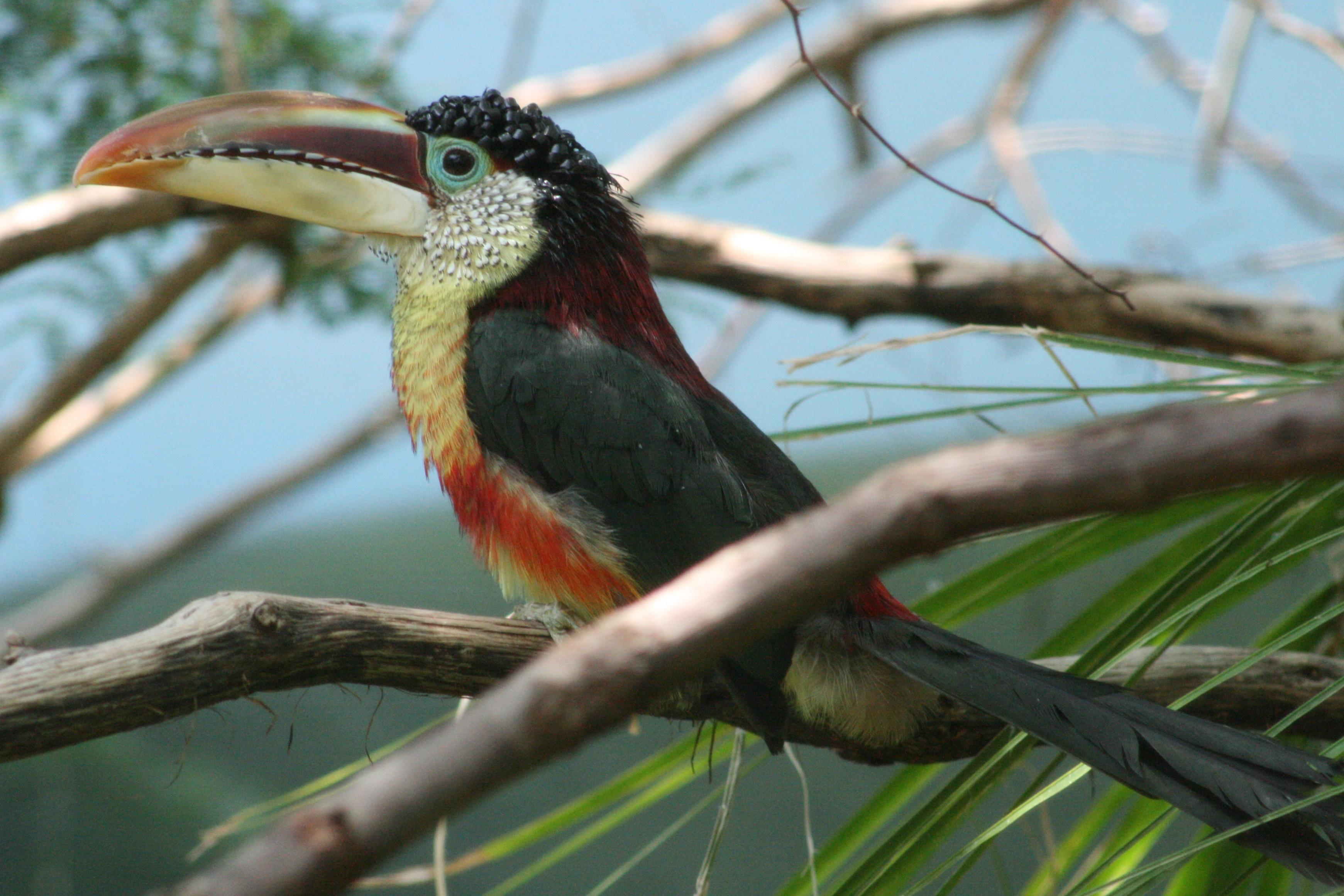 This is a Curl-crested Aracari I photographed at the Riverbanks Zoo & Garden in Columbia, SC.